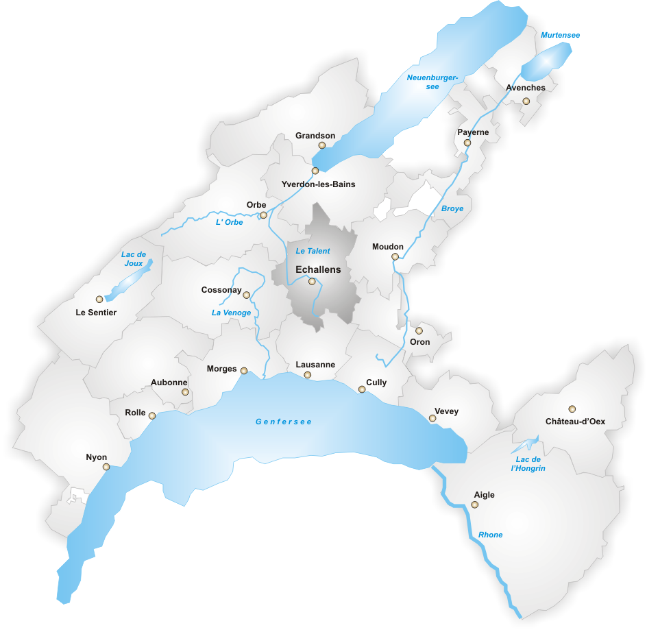 District Echallens until 2007